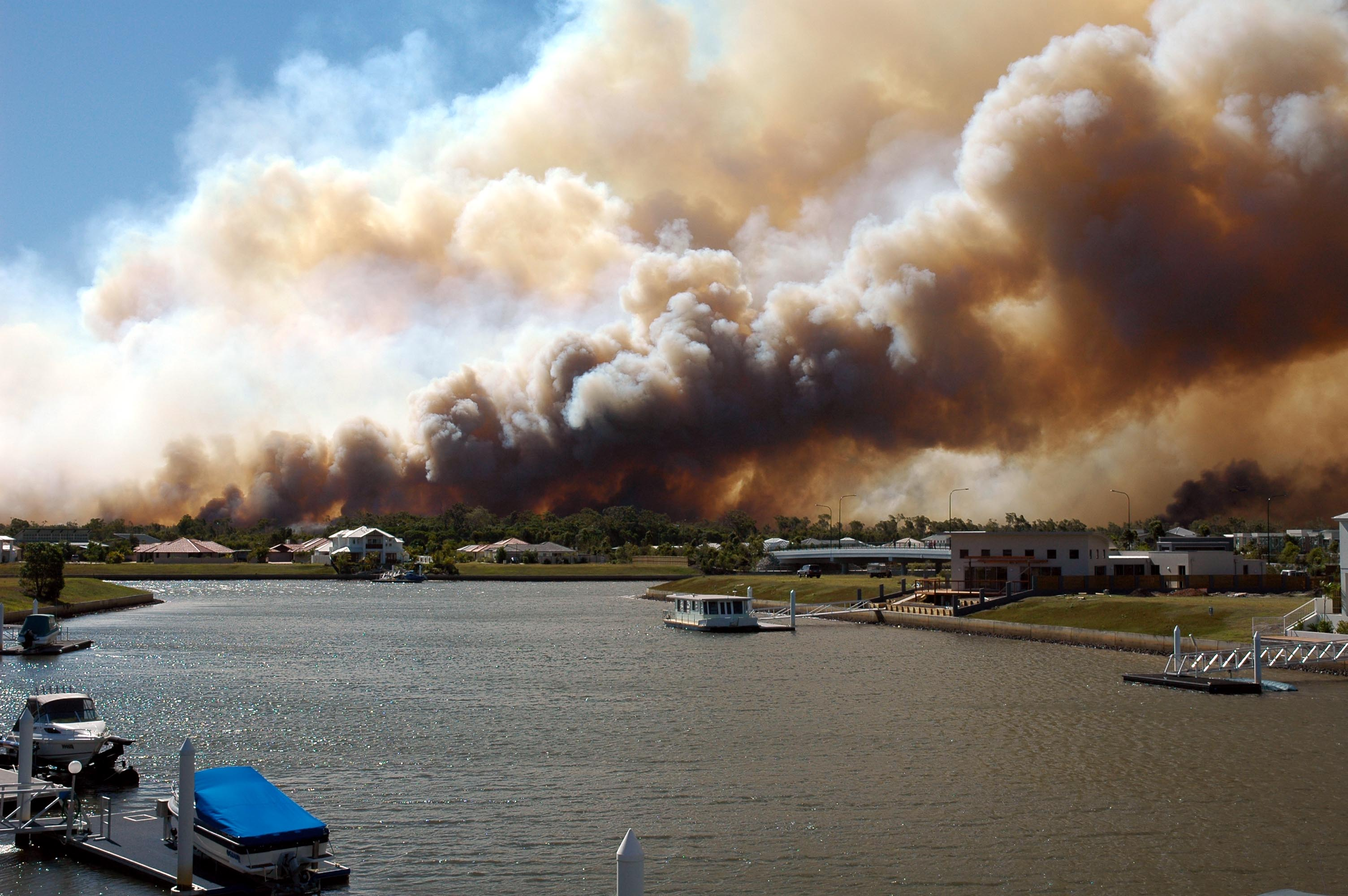 Sunshine Coast, Queensland - Pelican Waters Bush Fire